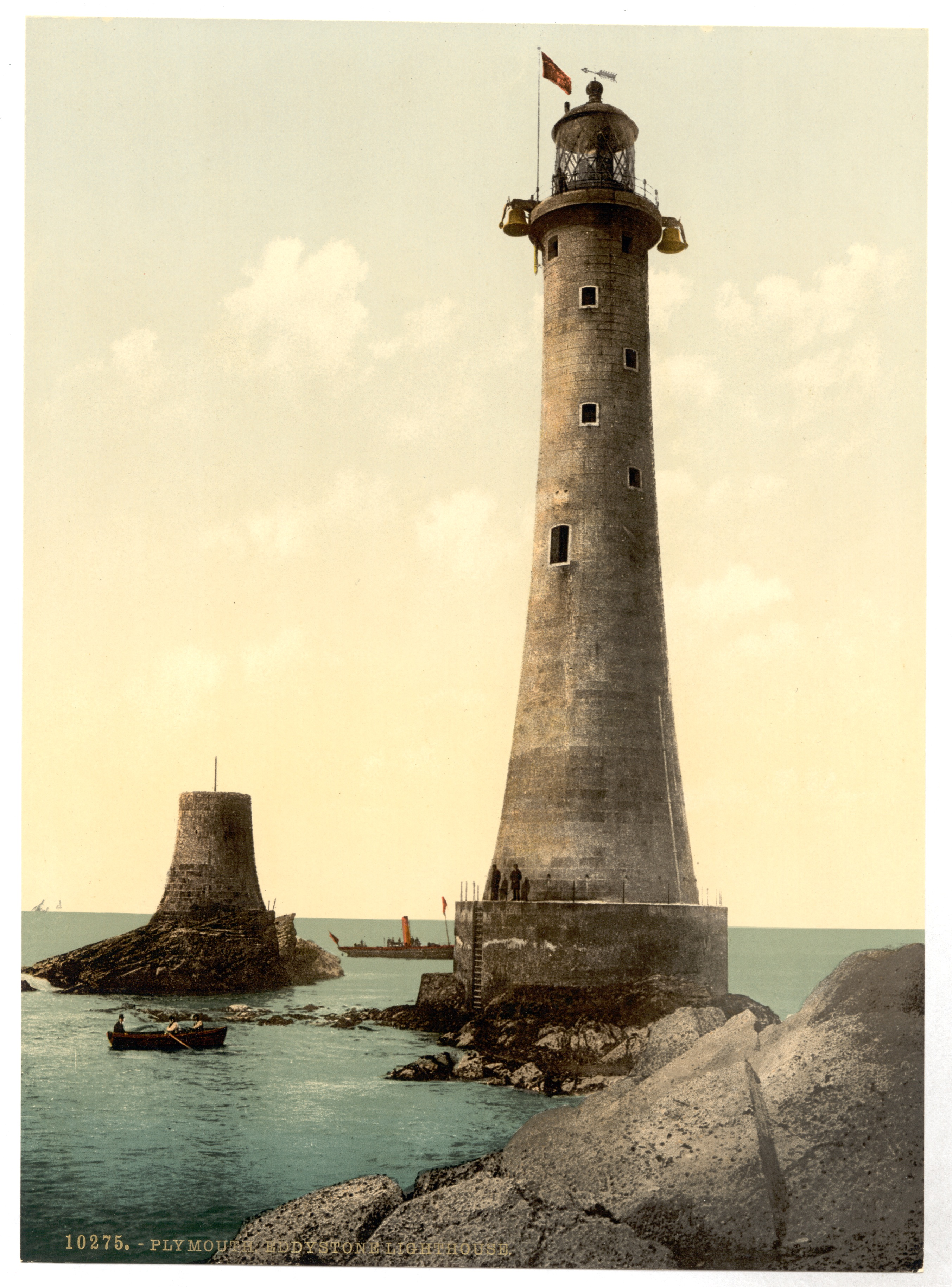 Forms part of: Views of the British Isles, in the Photochrom print collection.; More information about the Photochrom Print Collection is available at Title from the Detroit Publishing Co., Catalogue J-foreign section, Detroit, Mich. : Detroit Publishing Company, 1905.; Print no. "10275".